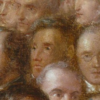 David Turnbbull.